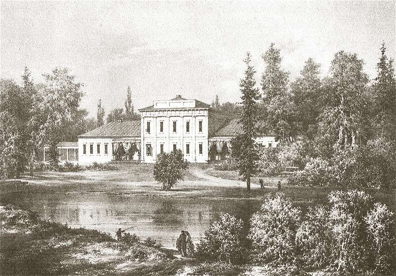 Manor of Taujėnai, Lithuania